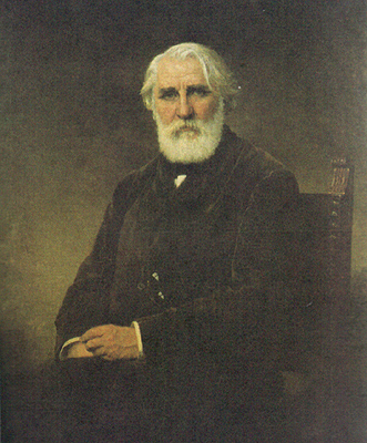 Portrait of Ivan Turgenev by A.A.Harlamov (1875)